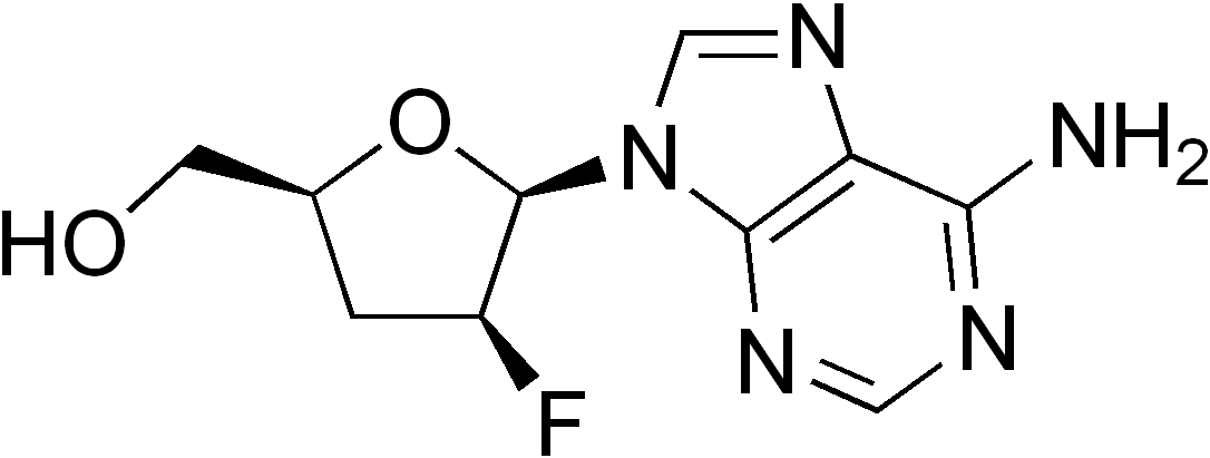 chemical structure of lodenosine